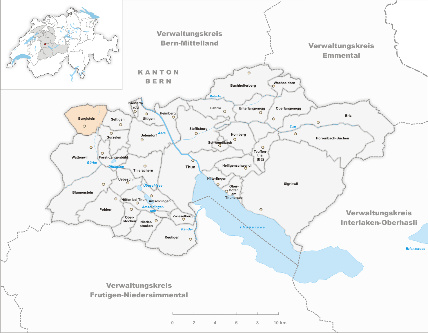 Municipality Burgistein